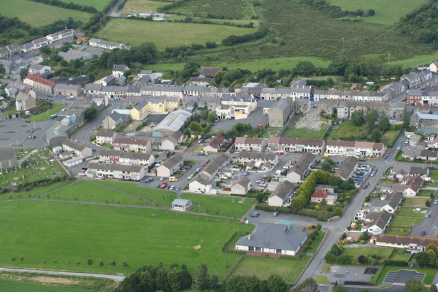 Kircubbin Village from the air A Sunday afternoon helicopter ride over Kircubbin district.